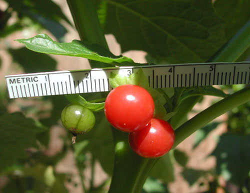 Ripe red fruits of Jaltomata auriculata, Collection Plowman & Davis 4449 grown as Mione 450, collected in Ecuador, Province Pichincha.